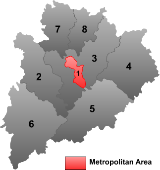 Map of Meizhou in Guangdong province.